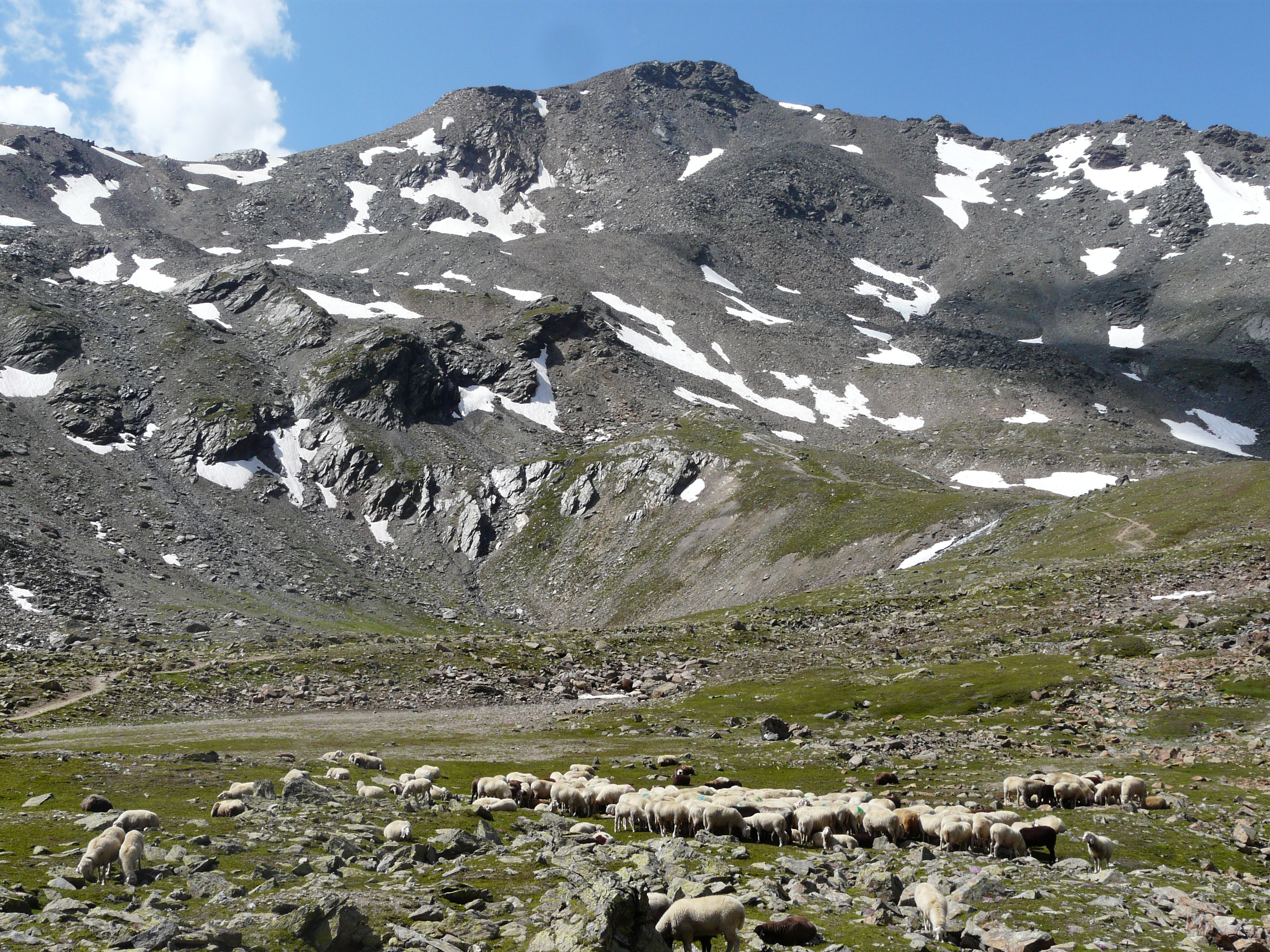 Hintere Schöntaufspitze (seen from Madritschtal)